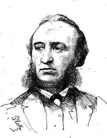 "Jules Ferry"